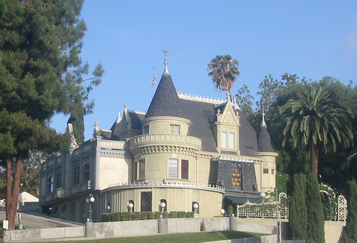 The Magic Castle Hotel and Club in Hollywood, California